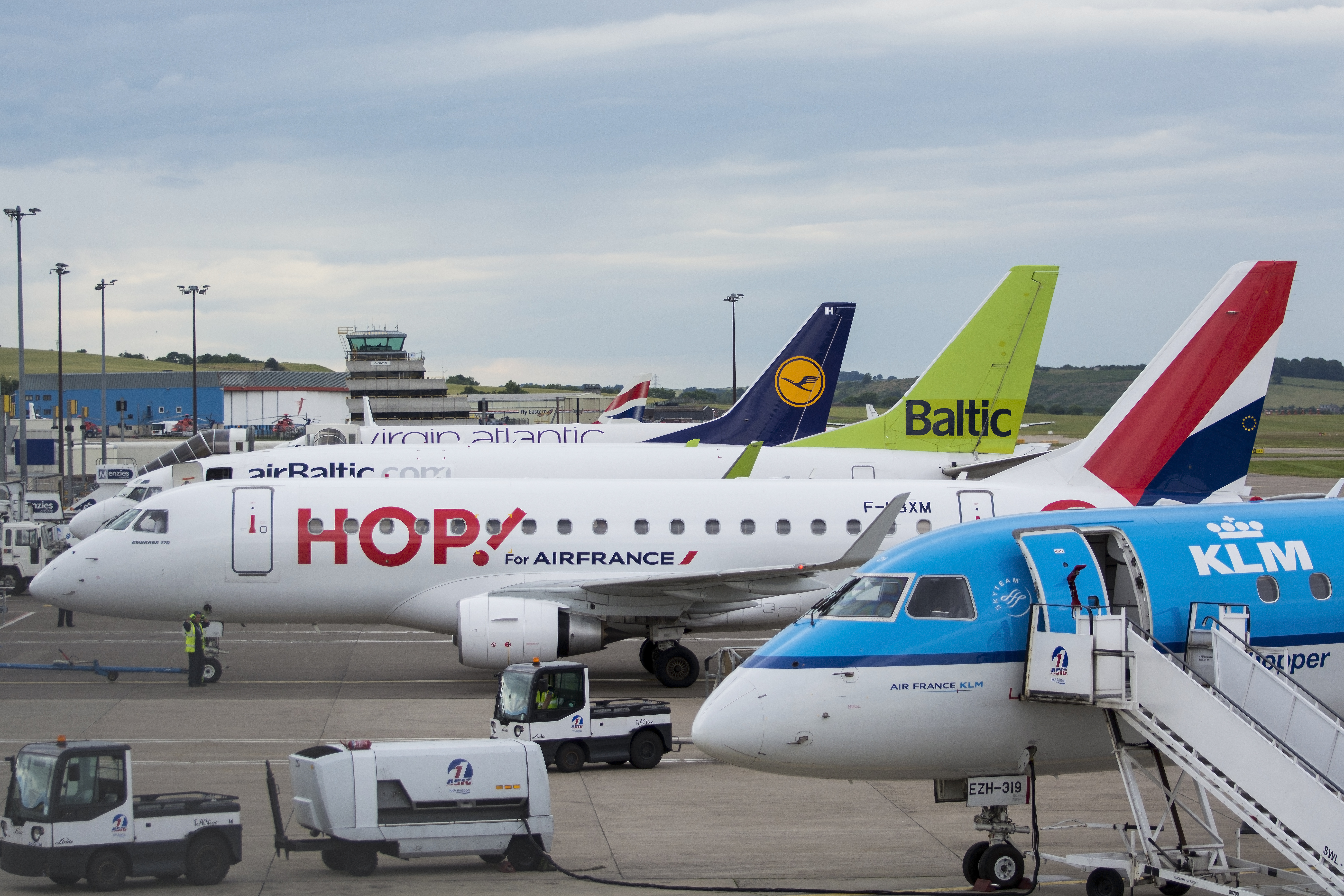 A selection of tails at Aberdeen International Airport